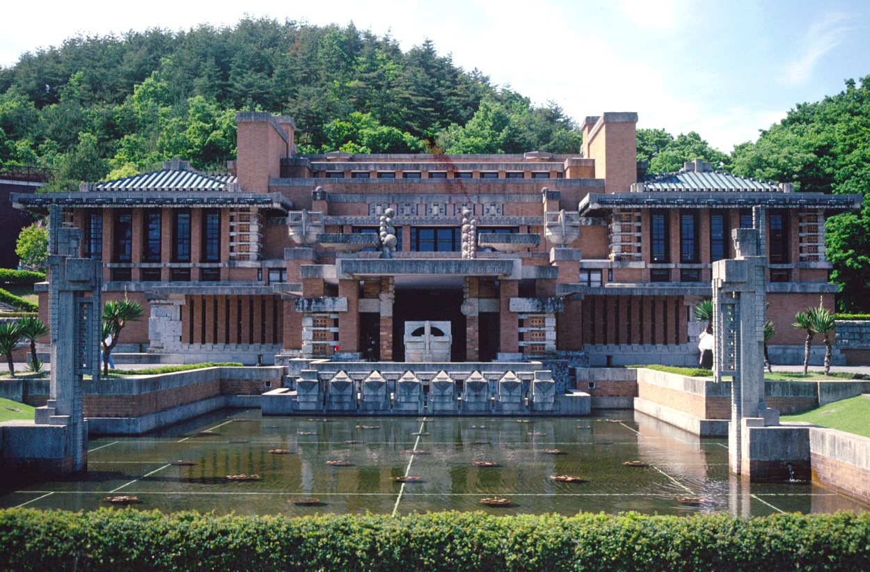 Facade of Frank Lloyd Wright's Imperial Hotel, Meiji Mura, Near Nagoya, Japan.